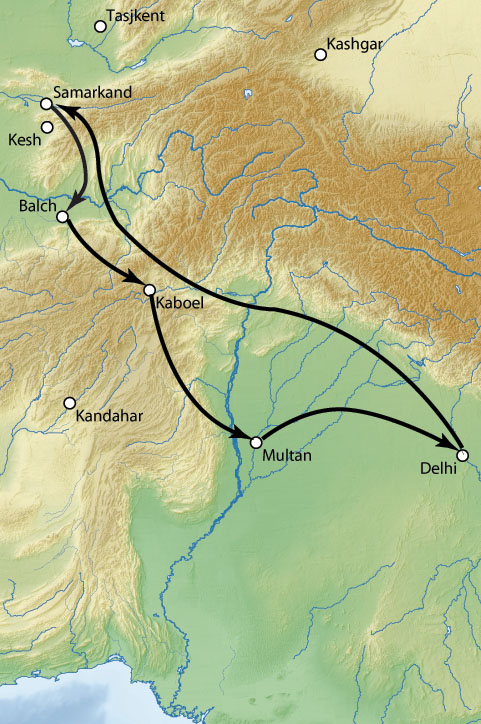 The Indian Campaign launched by Timur 1398-1399.